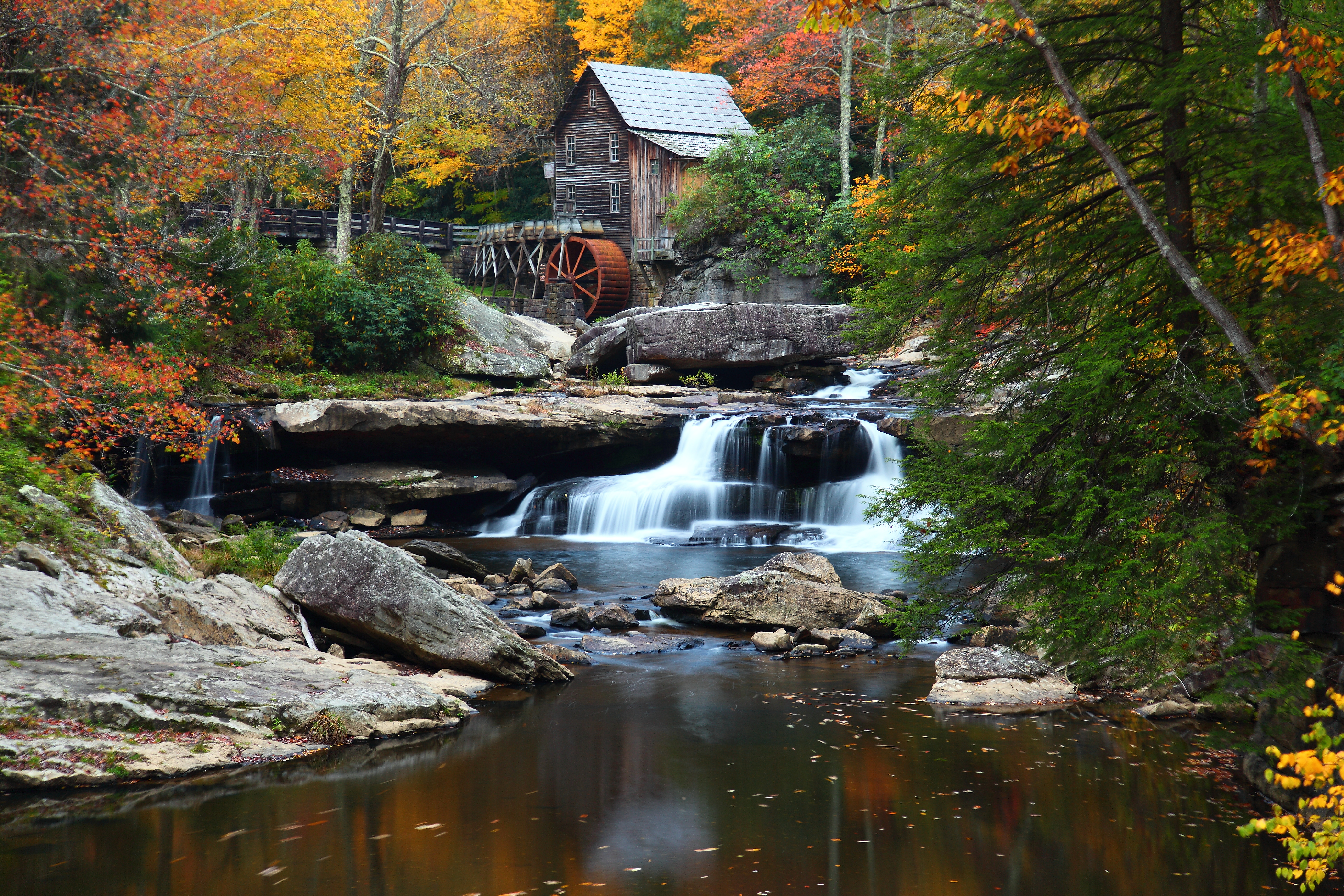 Autumn Fall Foliage at the Grist Mill in Babcock State Park West Virginia. This iconic photograph of the grist mill has been displayed on postcards and posters all over the world. ForestWander Catures this is crisp 21 MP detail.